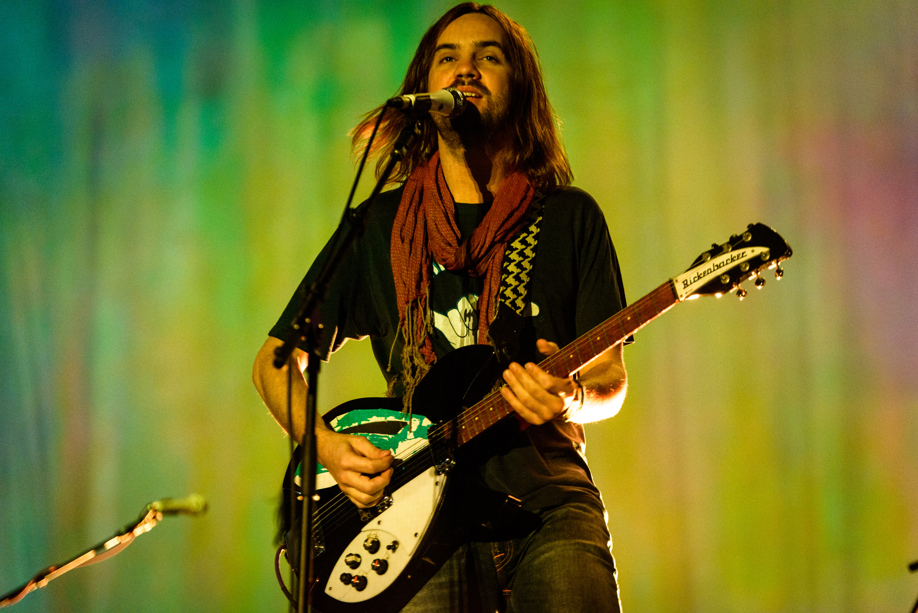 Tame Impala @ Lollapalooza 2015